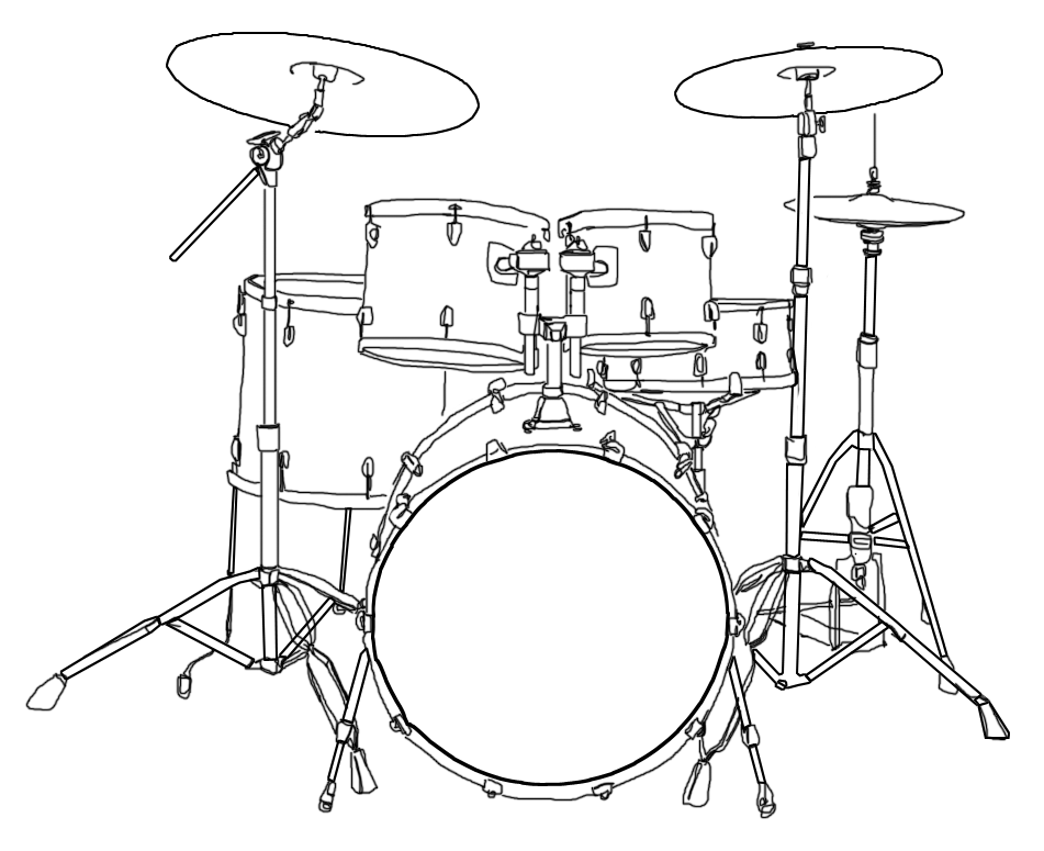 Illustration of a drum kit Created on March 31, 2005, by myself, Clngre.